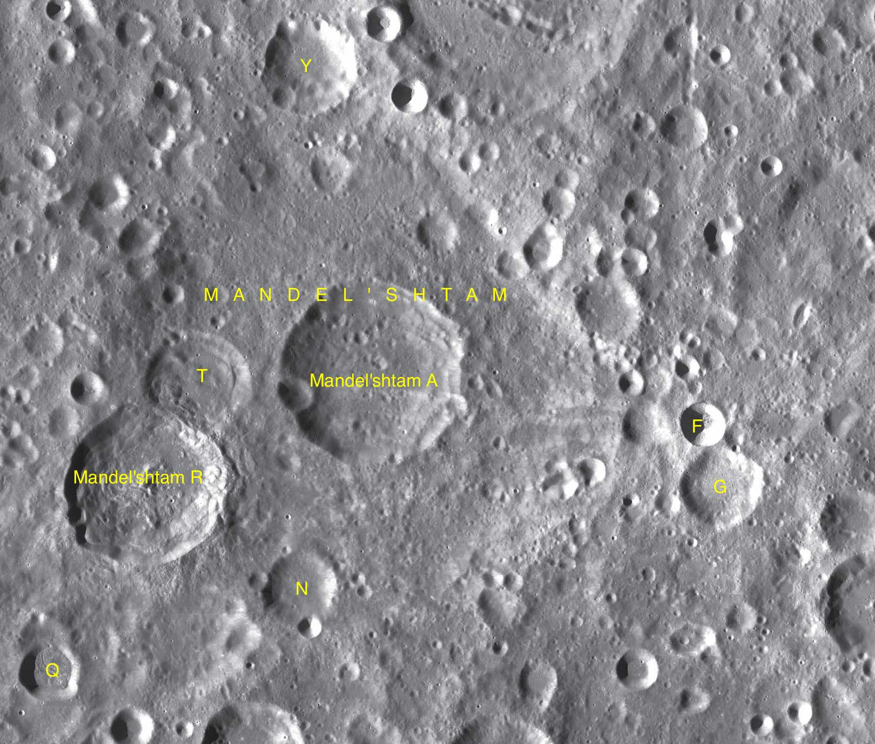 Part of the chart LAC-67 used for the presentation